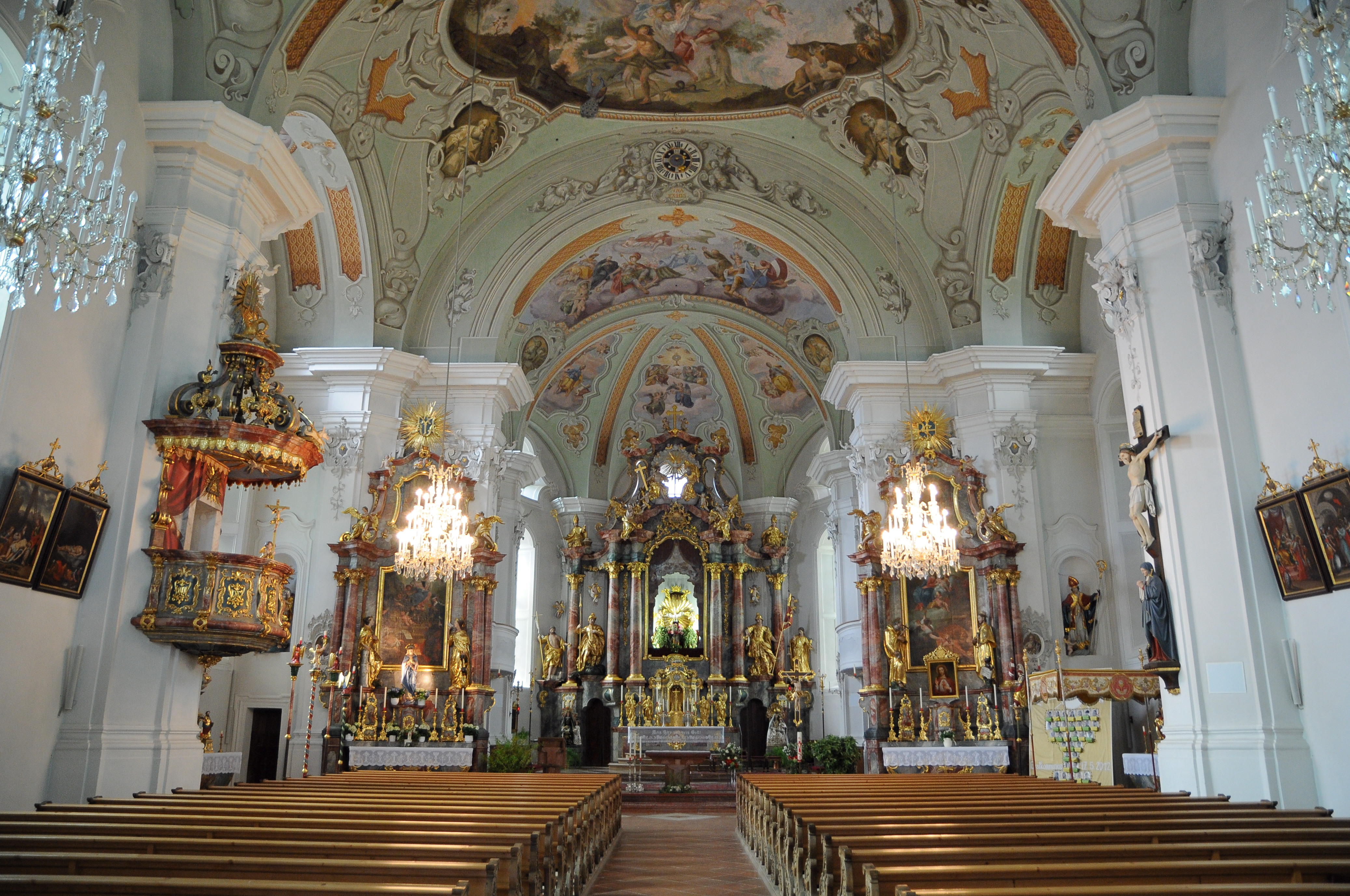 Roman-Catholic parish church St. James und St. Leonard of Hopfgarten im Brixental, Tyrol (Austria)